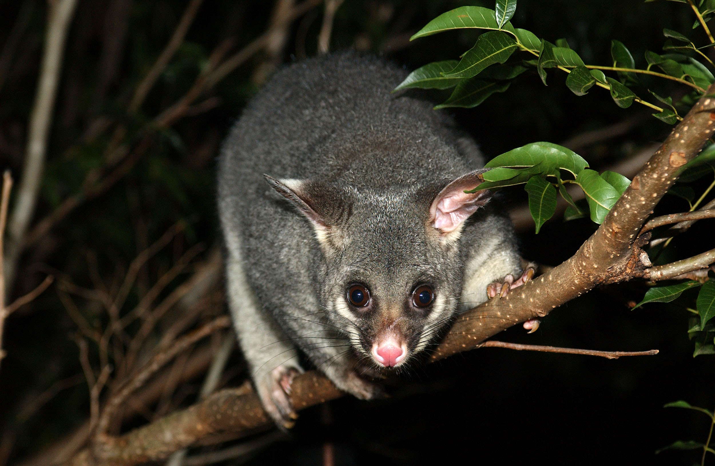 Brushtail possum in Brisbane